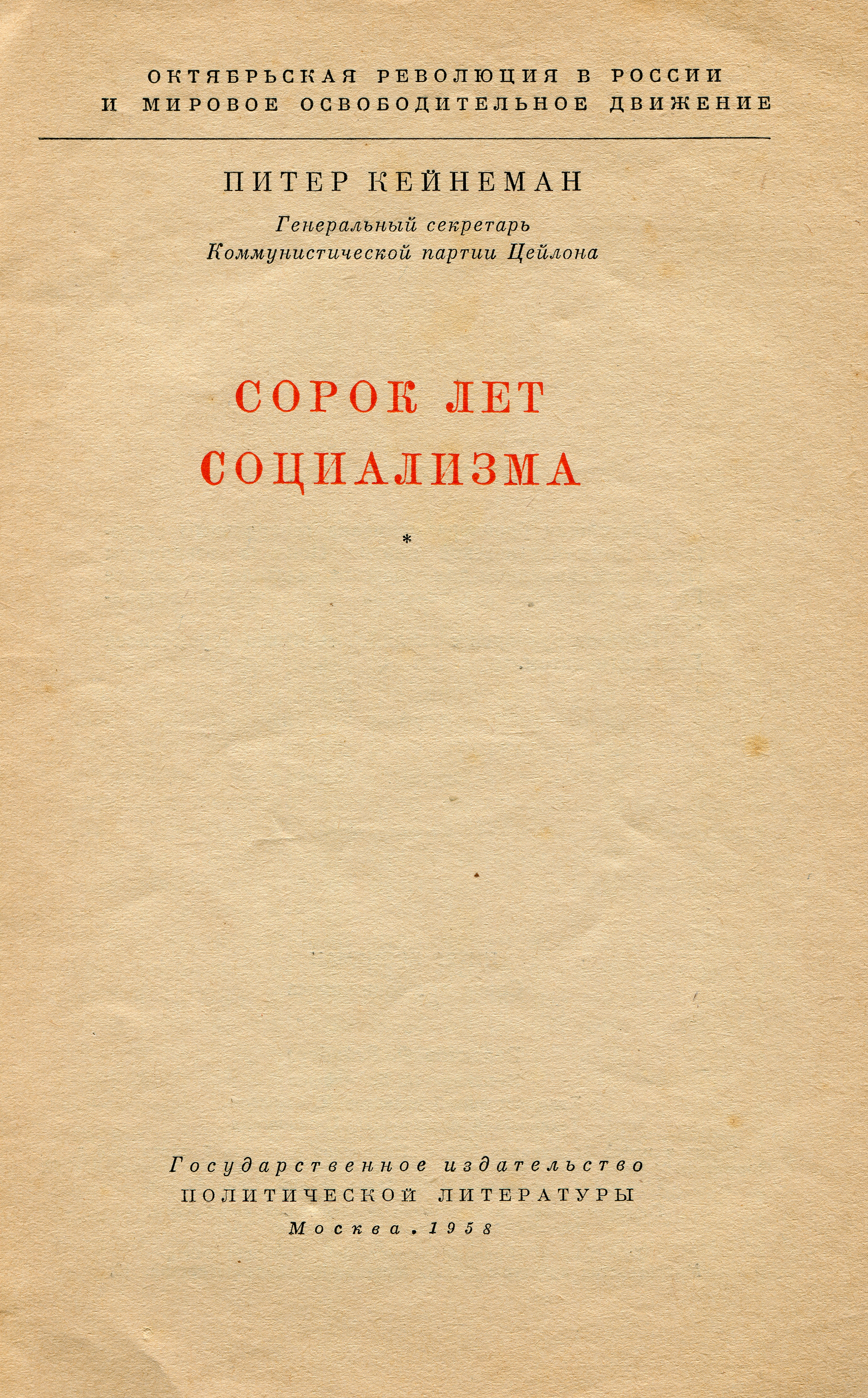 Pieter Keuneman was a Sri Lankan politician and a Marxist. Book - "Forty years of socialism".